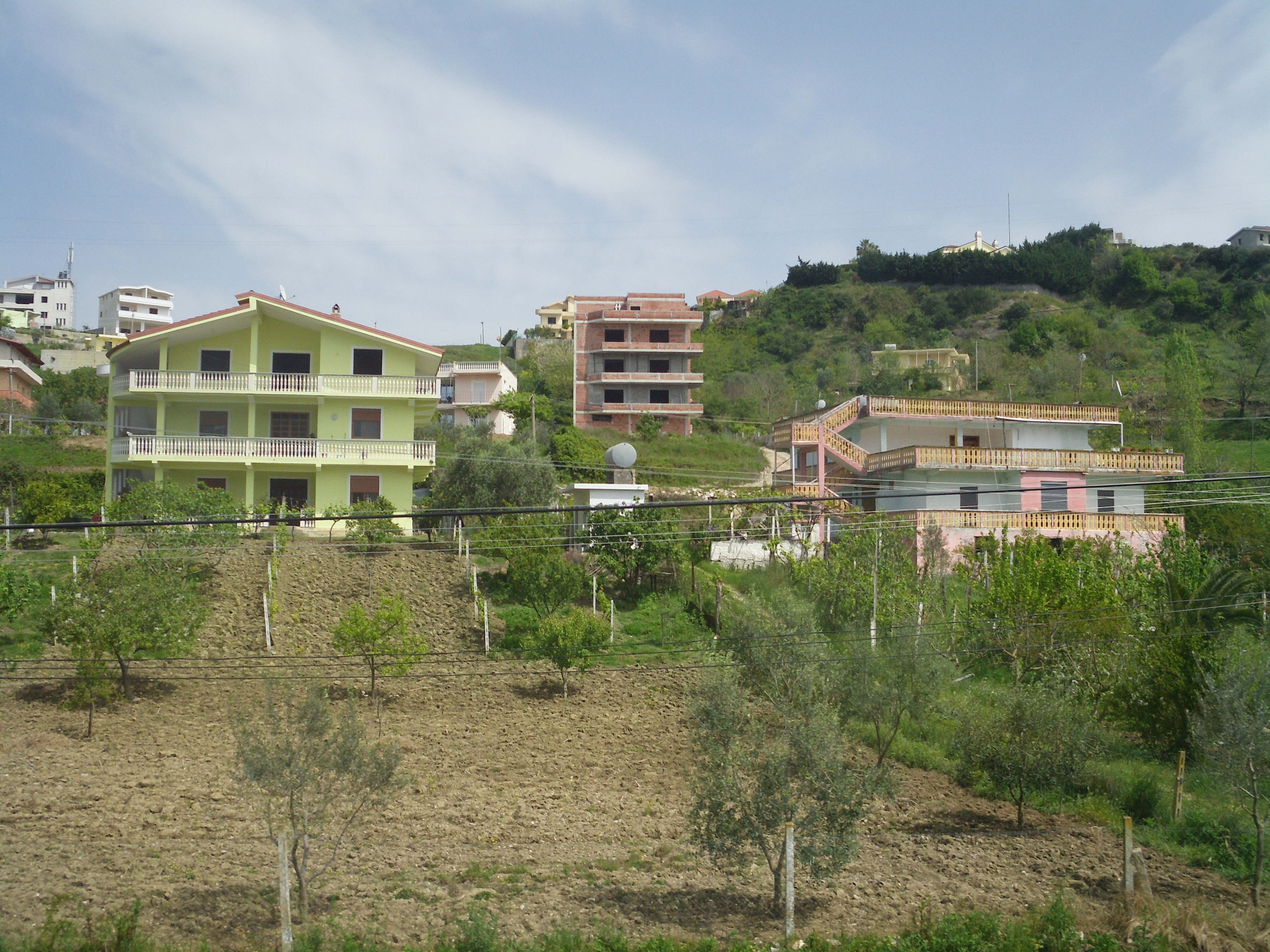 Residential houses at a coast of Albania near Durrës, probably in the village of Shkallnur (to be confirmed), as seen from a train between Durrës and Golem.